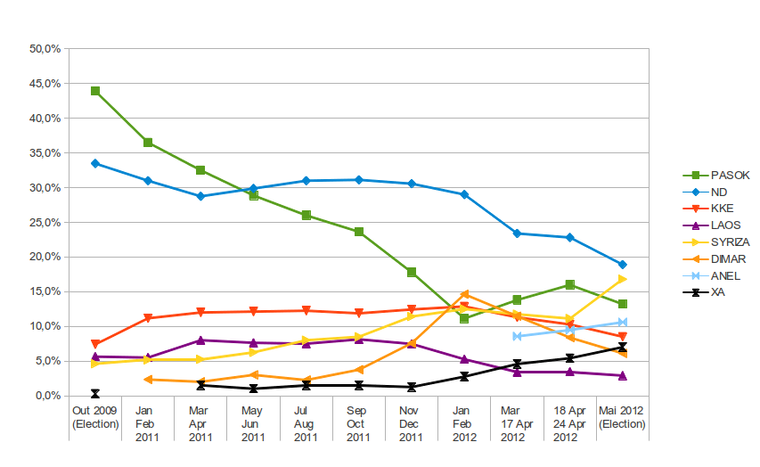 Plot of opinion pools since last Greek elections. Created with libreoffice.